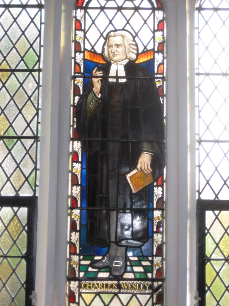 One of Arnold Robinson's windows in the Kingsdown area of Bristol, Robinson designed and installed four three-light windows, this a short while after the 1927 restoration and in the central light of these windows he depicts, in turn, John Bunyan, William Tindale, Archbishop Cranmer and Charles Wesley. The right and left hand lights of the four windows are either plain or hold some coloured glass. The window dedicated to Bunyan has John Bunyan in the centre light with a copy of “Pilgrim’s Progress” tucked under his arm. The window is inscribed “To the Glory of God & in loving memory of George Bradford Steers & Sarah Jane Steers.” Below Bunyan, Robinson painted a roundel with a scene from the “Pilgrim’s Progress”. The three-light window featuring William Tindale has Tindale carrying a copy of his famous Bible and in a roundel beneath he is depicted writing that Bible. The window is inscribed “In Loving Memory of Richard Dalton.” Another three-light window depicts Charles Wesley, who had lived in nearby St James’s which through growth and popularity led to the need for a new church in the adjacent new suburb of Kingsdown, that new Church being St Matthews, and in the roundel beneath he is shown writing at his desk. The inscription reads “In Loving Memory of Albert E.Hill.” Another three-light window depicts Archbishop Cranmer and in a roundel below we see Cranmer about to be burnt at the stake. The inscription reads “In loving memory of Catharine Hill”. The Hills and Dalton were long-serving Churchwardens of St Matthew’s.